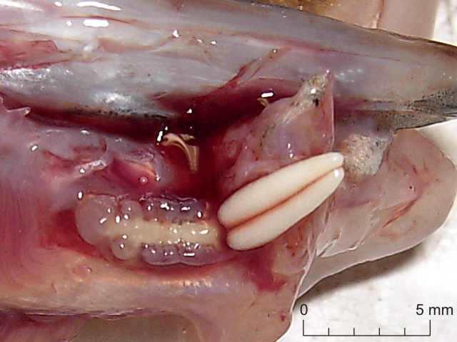 Parasitical copepod on Dab (Limanda limanda), from the Belgian coastal waters (Oostdyck).Identification is based on the host (often host specificity) and the form and relative size of the egg sacs as well as on the structure of the piercing parts.